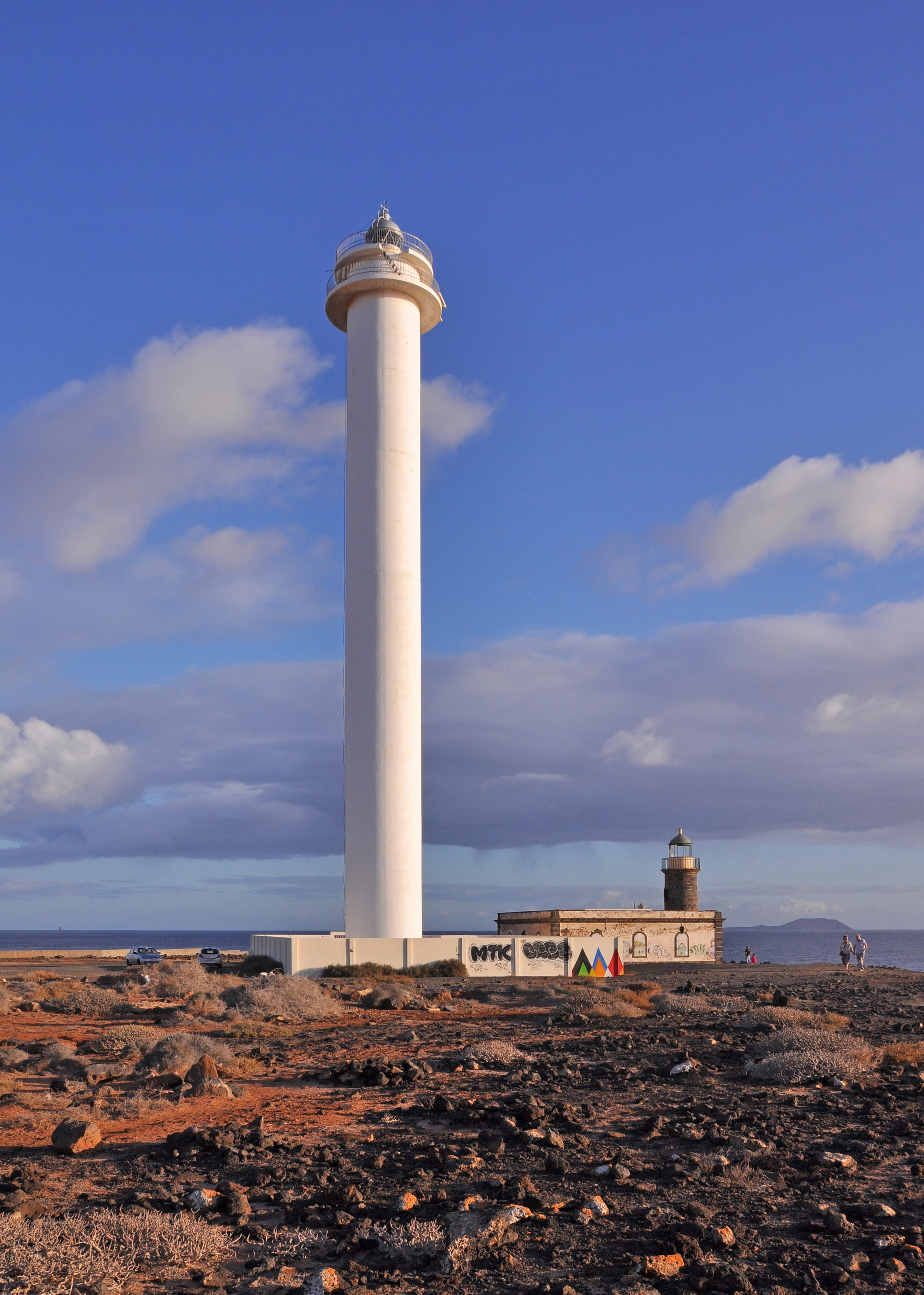 Playa Blanca (Yaiza municipality, Lanzarote, Canary Islands): the lighthouse of Punta Pechiguera in the evening light